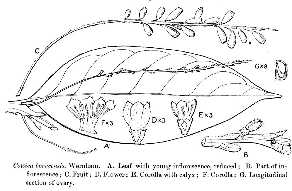 Cowiea borneensis (drawing from the original publication: Wernham, H.F. (1914). "Cowiea". Journal of the Linnean Society. Botany. London. 42: 96-97. at